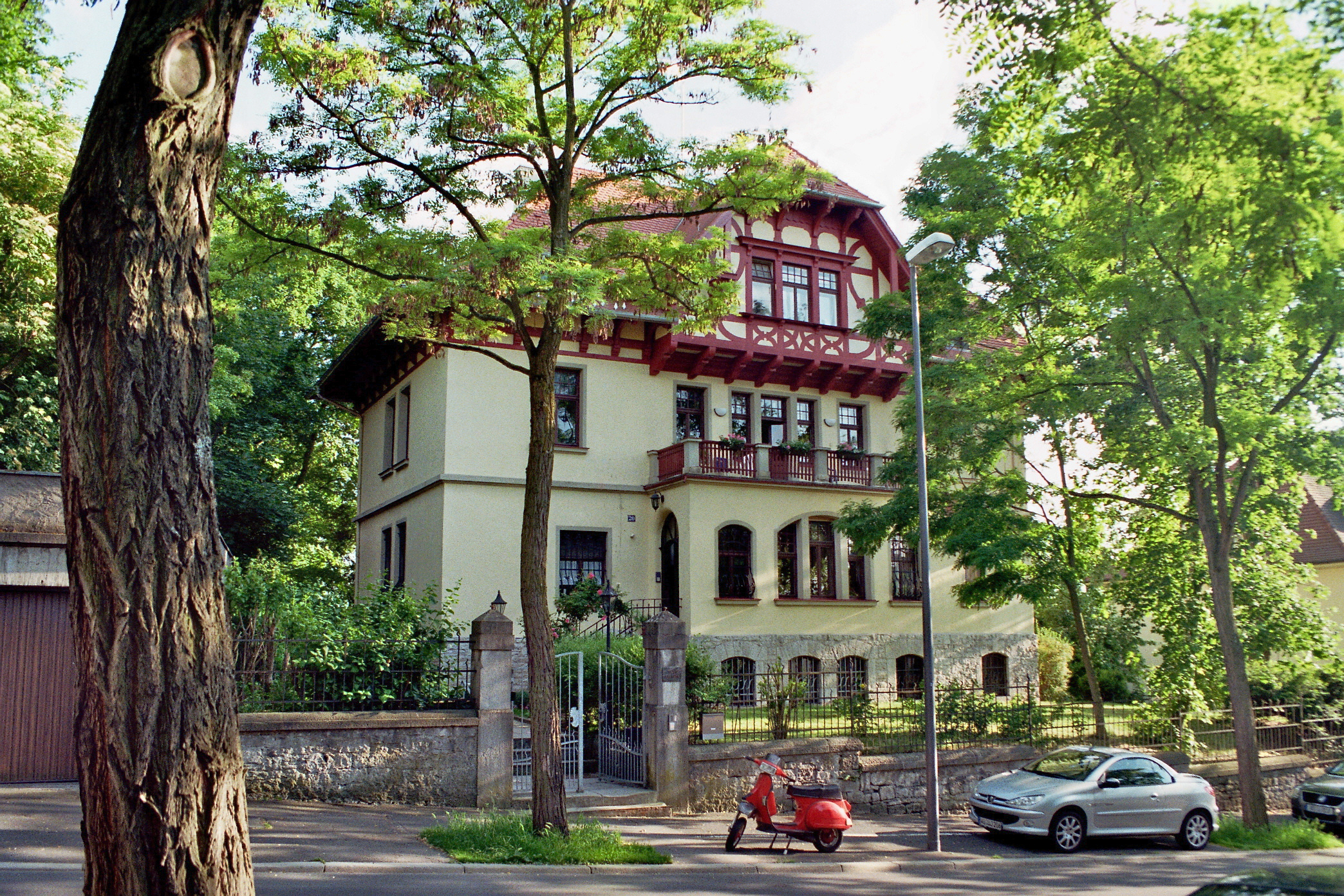 House of student fraternity "Corps Bavaria Würzburg" in Würzburg/Germany